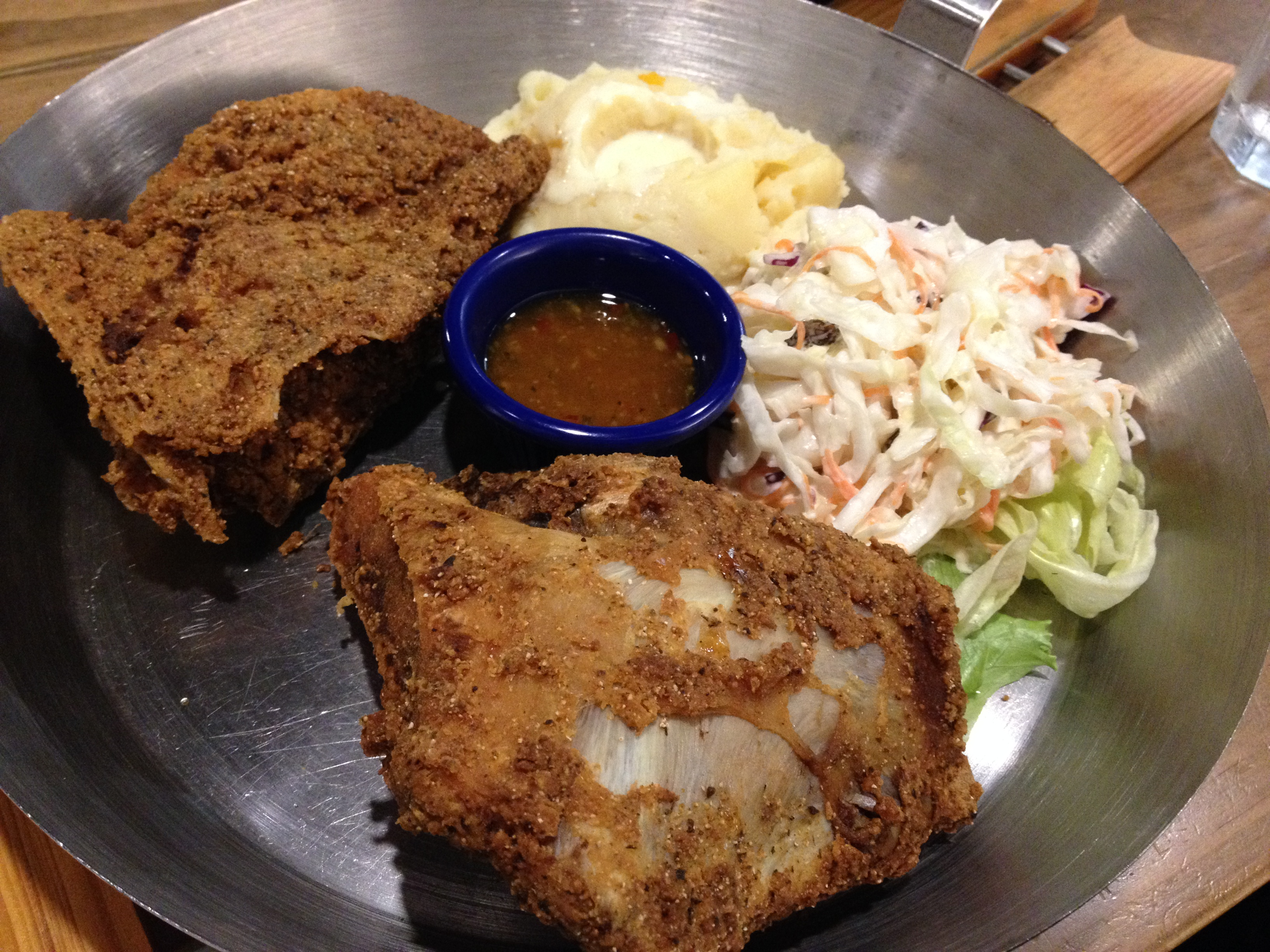 Fried Swordfish collar with spicy mango vinaigrette. Served with mashed potatoes and coleslaw by the side.